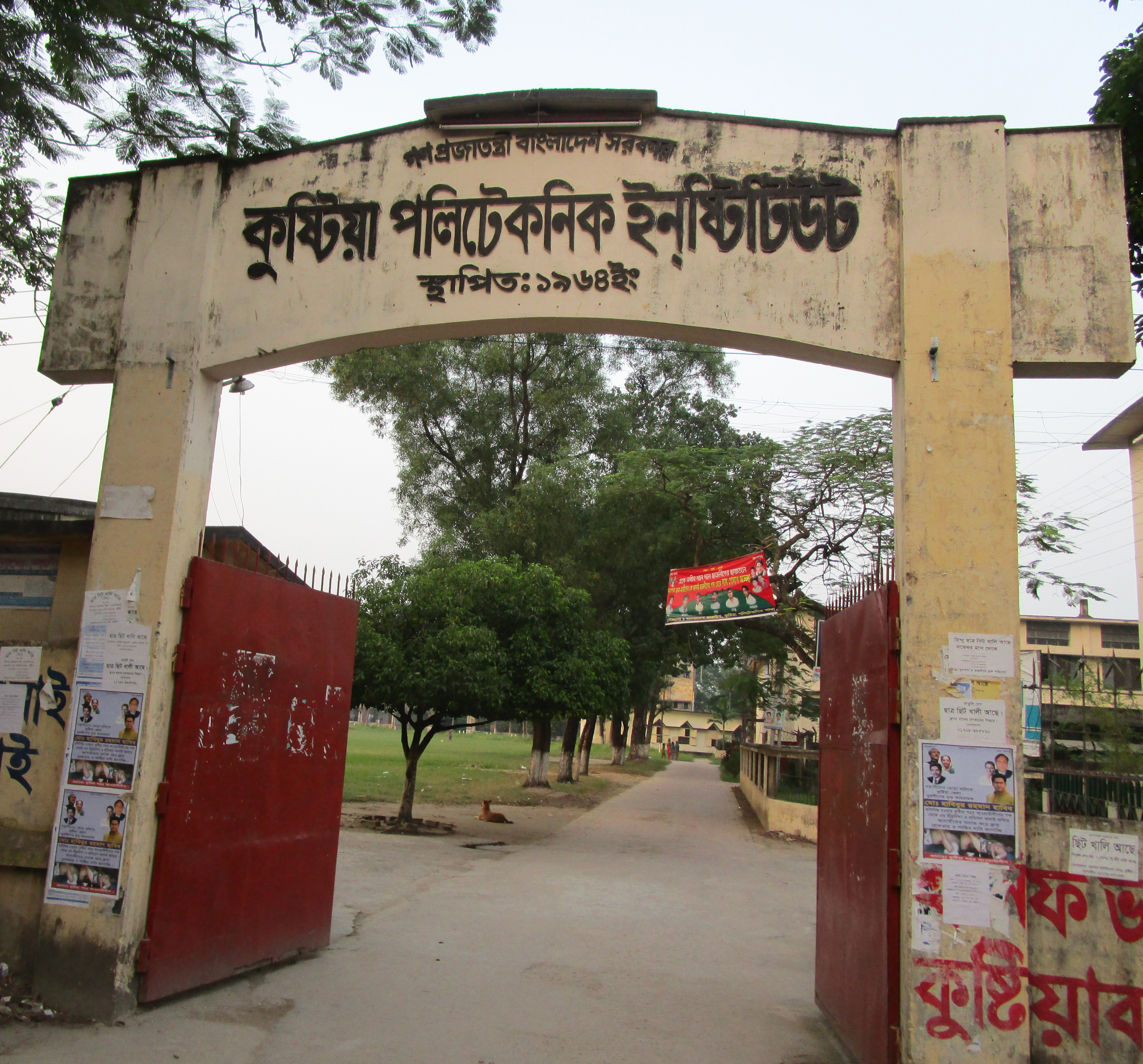 Main Gate of Kushtia Polytechnique Institute